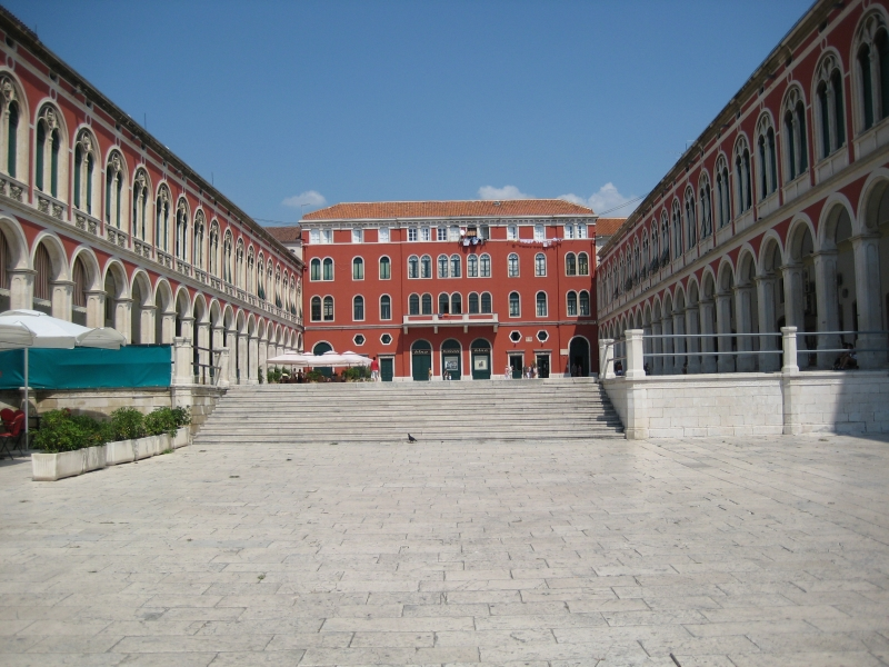 Prokurative, Split, Croatia